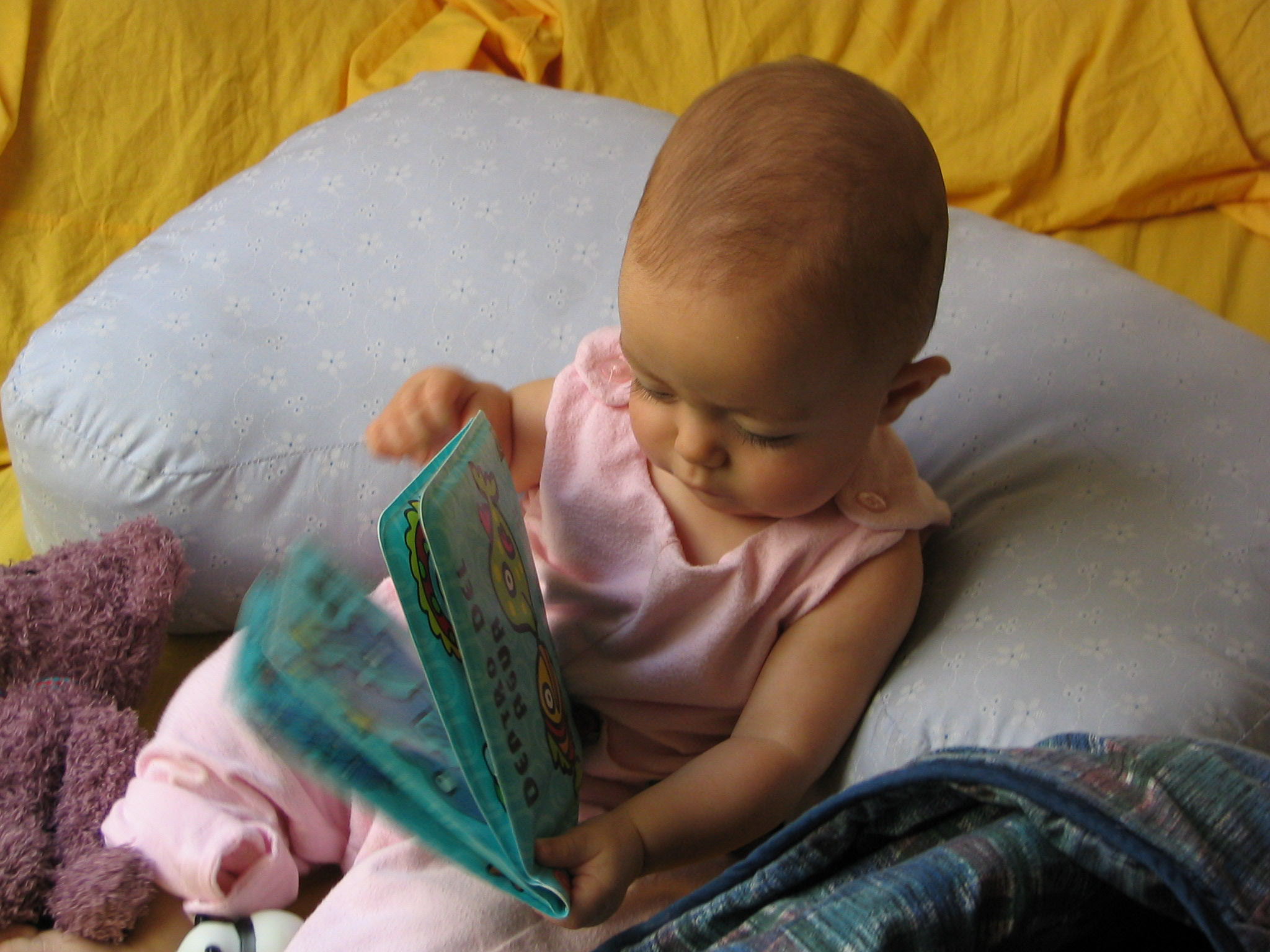 Baby with book